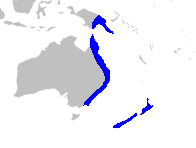 Plant family Ripogonaceae distribution map